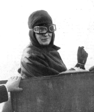 Trehawke Davies in Hamel's Bleriot at the 1912 Whitsun meeting, Hendon